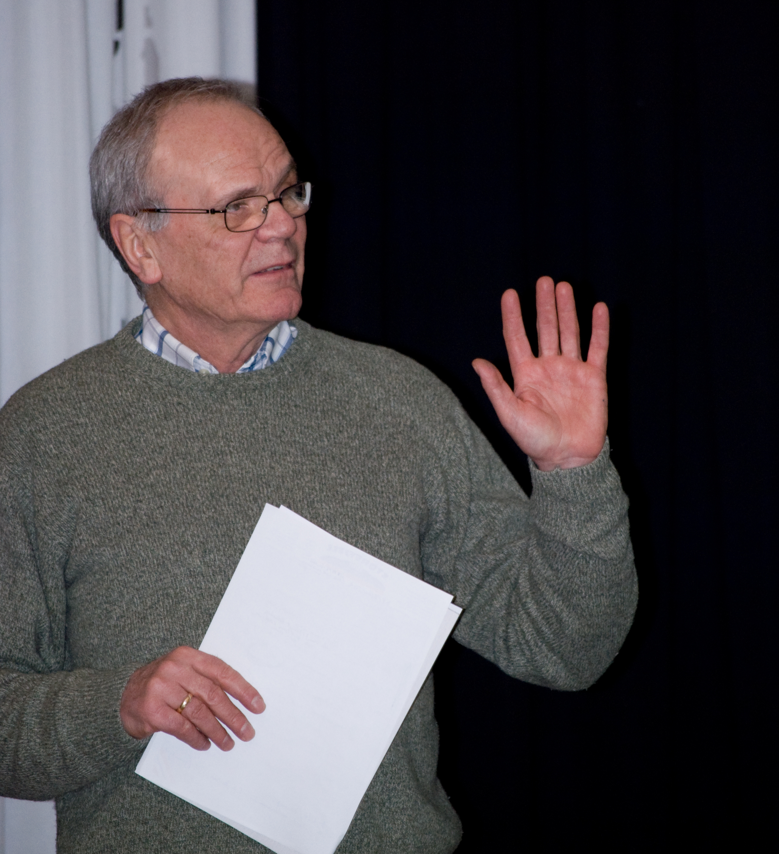 Eldar Hansen, chairman of Skeid Fotball. Former football player of Rosenborg.